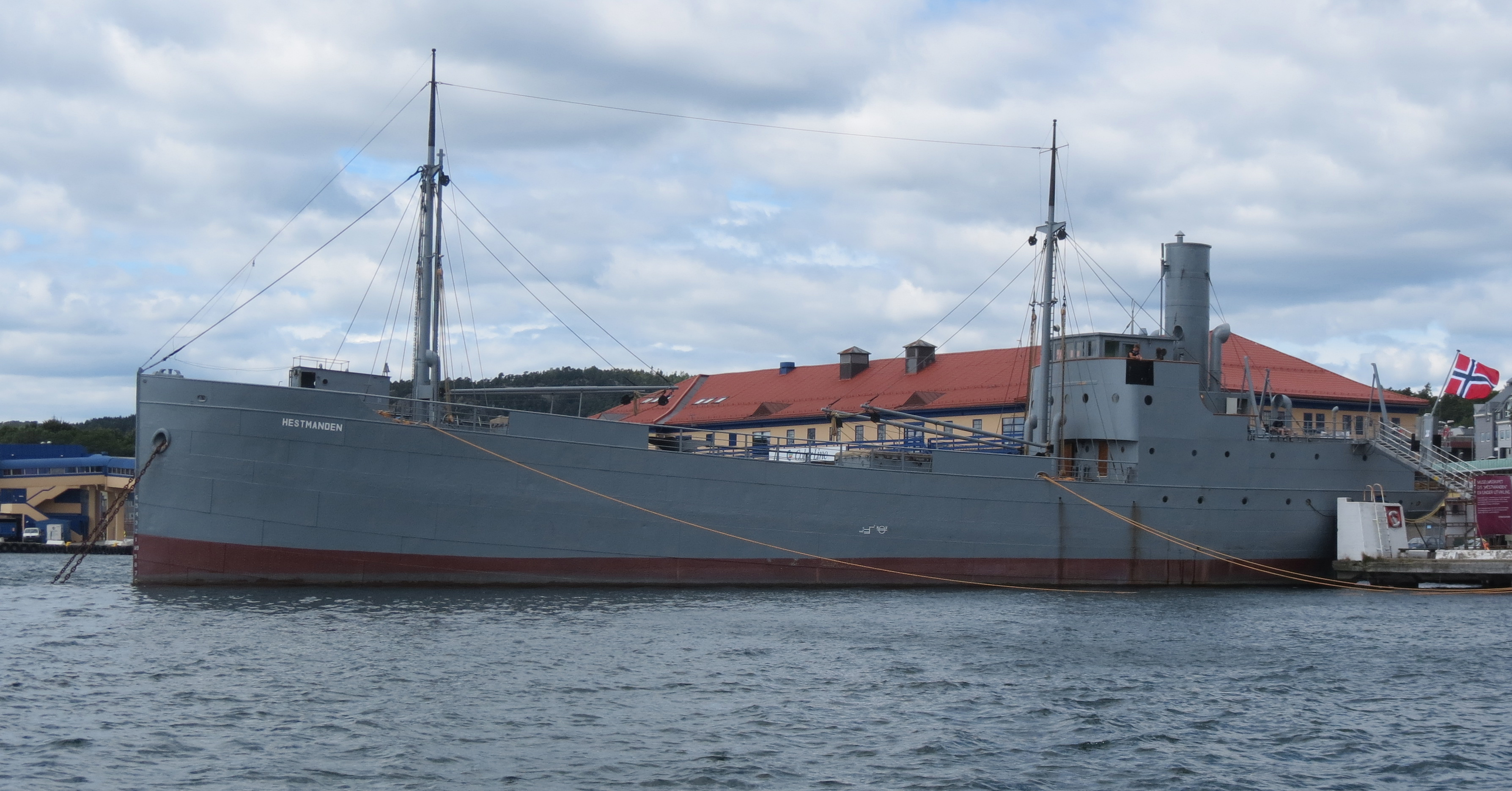 Hestmanden, the last remaining ship once managed by Nortraship during WW2, today museumship in Kristiansand